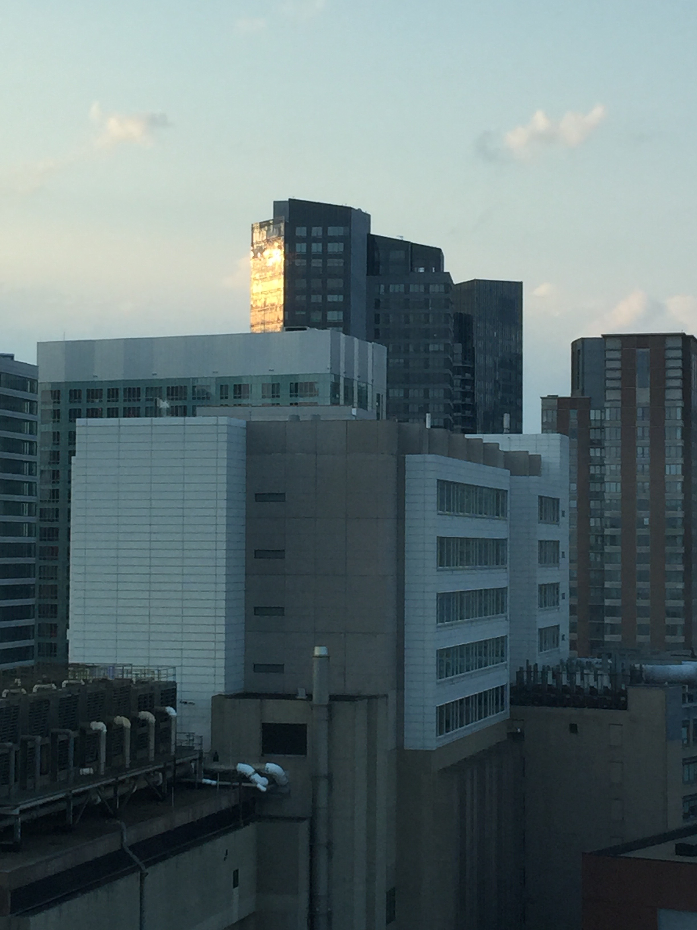 Tufts Dental Building in Boston from the South